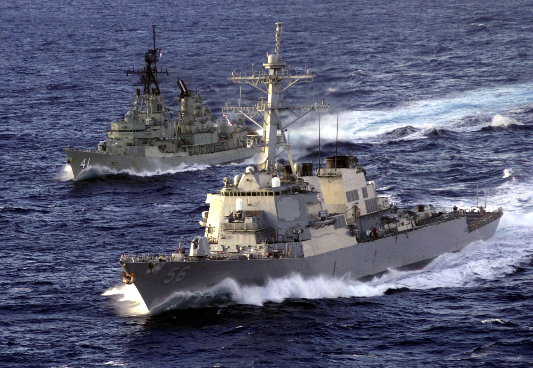 010519-N-4790M-005 Shoalwater Bay, Queensland, Australia (May 19, 2001) – The Australian destroyer HMAS Brisbane (DDG 41) (top) and the U.S. Navy destroyer USS John S. McCain (DDG 56) (center) cruise side by side in Australian waters during Operation Exercise Tandem Thrust 2001. Tandem Thrust is a combined U.S. and Australian military training exercise being held in the Shoalwater Bay Training area off the coast of Australia. More than 27,000 Soldiers, Sailors, Airman and Marines are participating with Canadian units taking part as opposing forces. U.S. Navy Photo by Photographer’s Mate 2nd Class Andrew Meyers. (RELEASED)